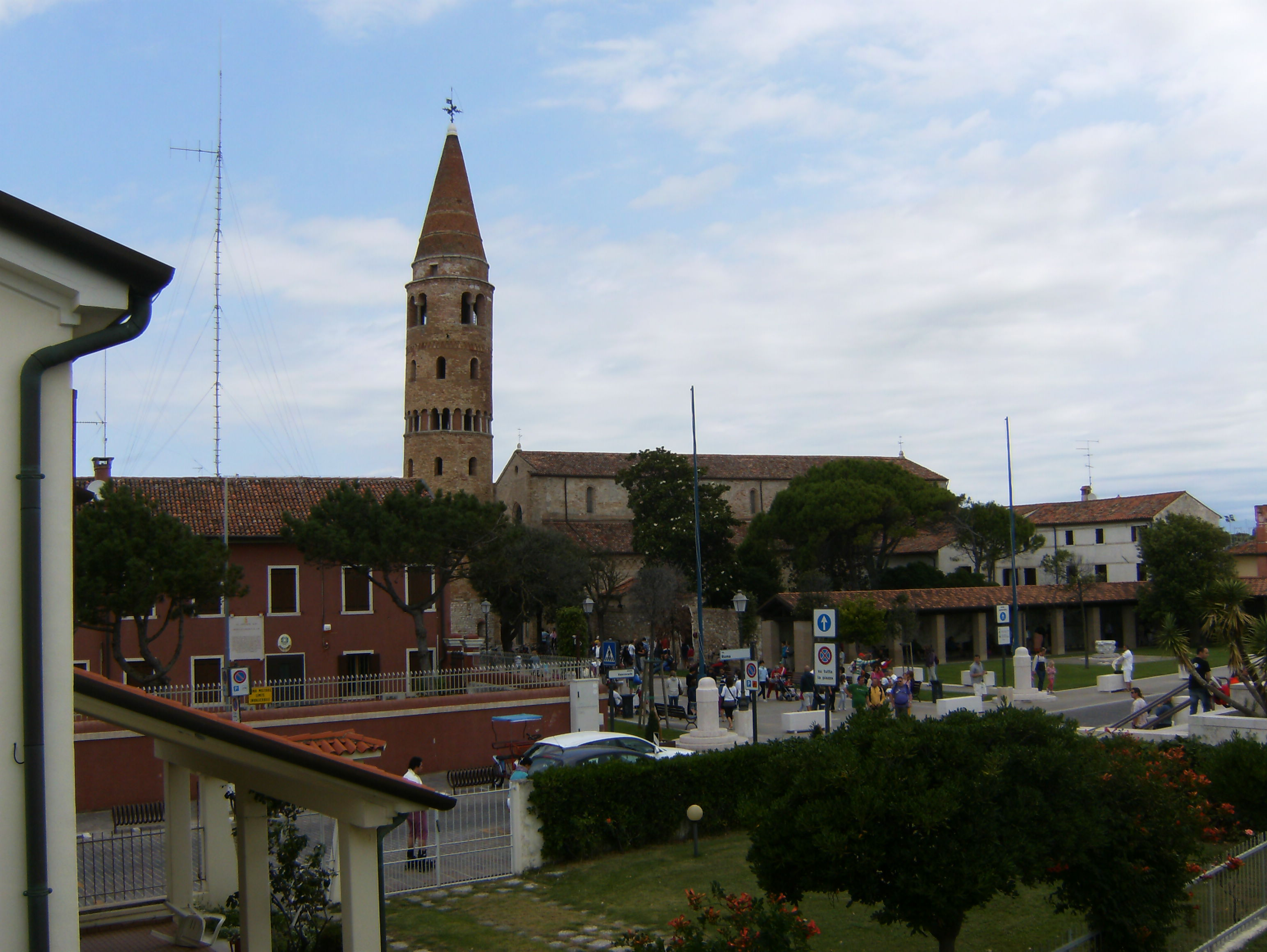 Cathedral, Caorle, Veneto